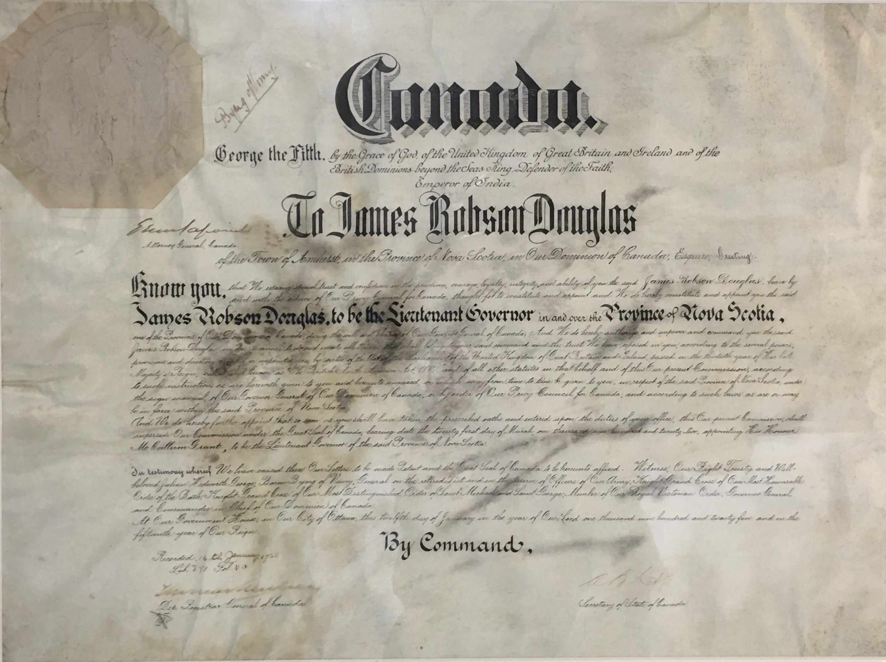 Lieutenant Governor's Commission of Appointment, 1925. Appointing James Robson Douglas as Lieutenant Governor of Nova Scotia. Calligraphy on velum, sealed under the Great Seal of Canada. Displayed at Government House Halifax.